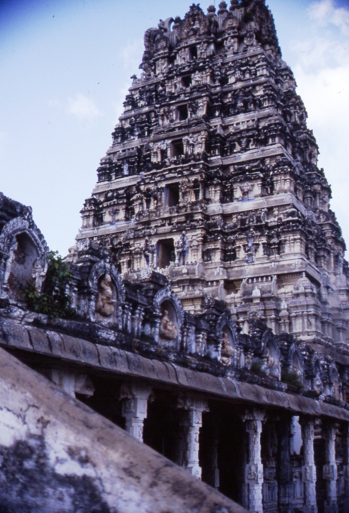 Mahabalipuram, Gopuram, Tamil Nadu, India